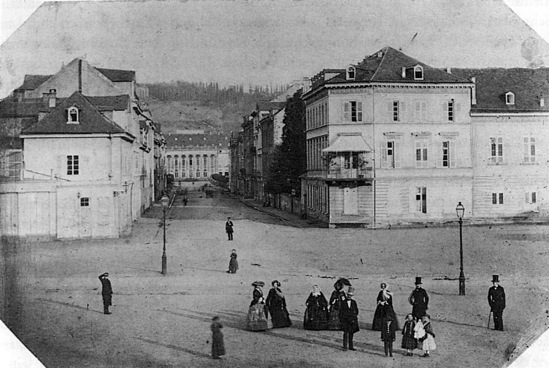 Löhrrondell and view to Schlossstraße in Koblenz, one of the oldest photos of the city